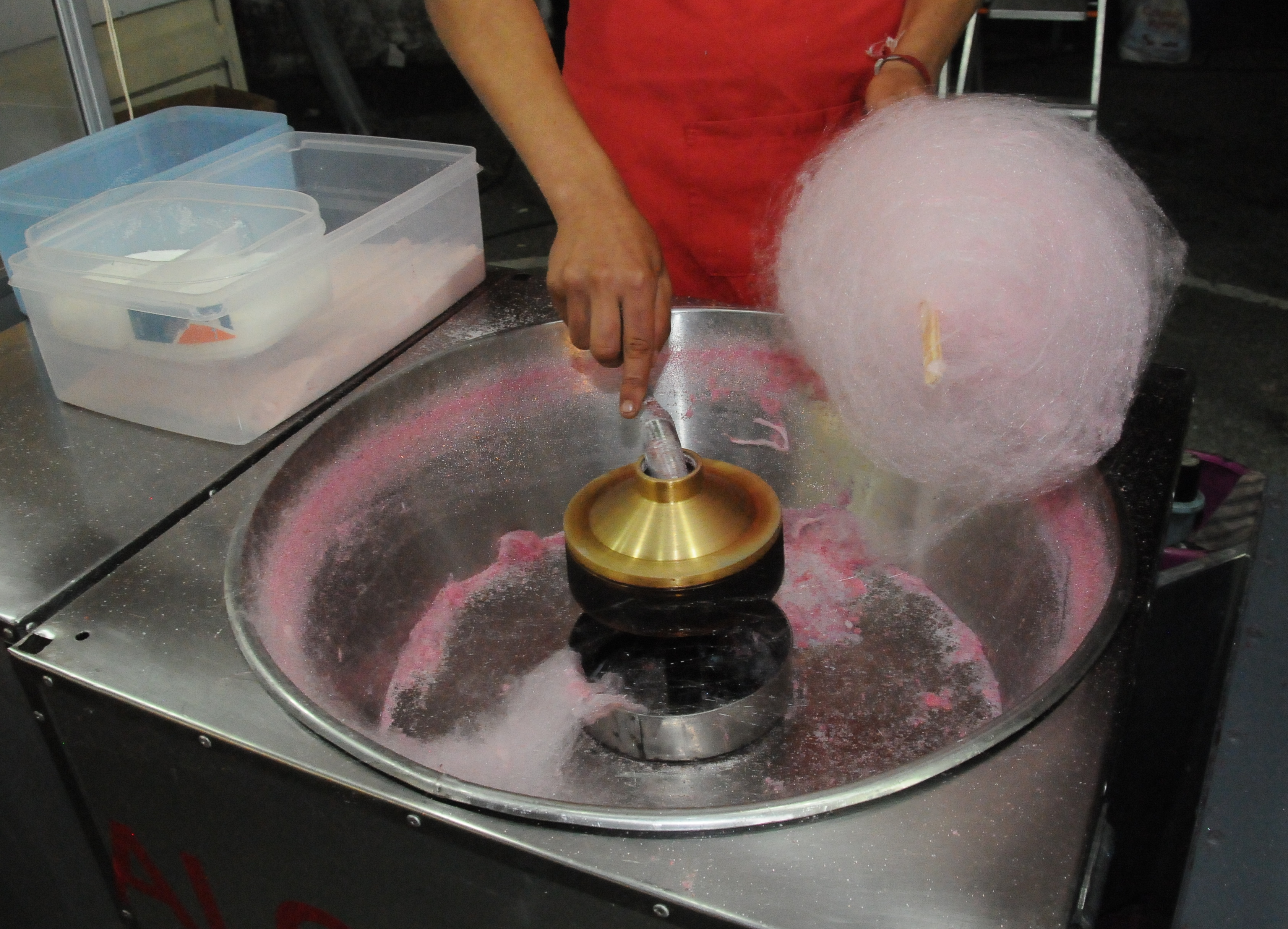 Cotton candy in Braga, Portugal.